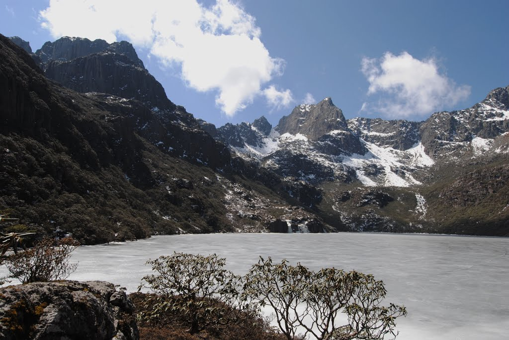 Xiaoxiang Range in Sichuan, China